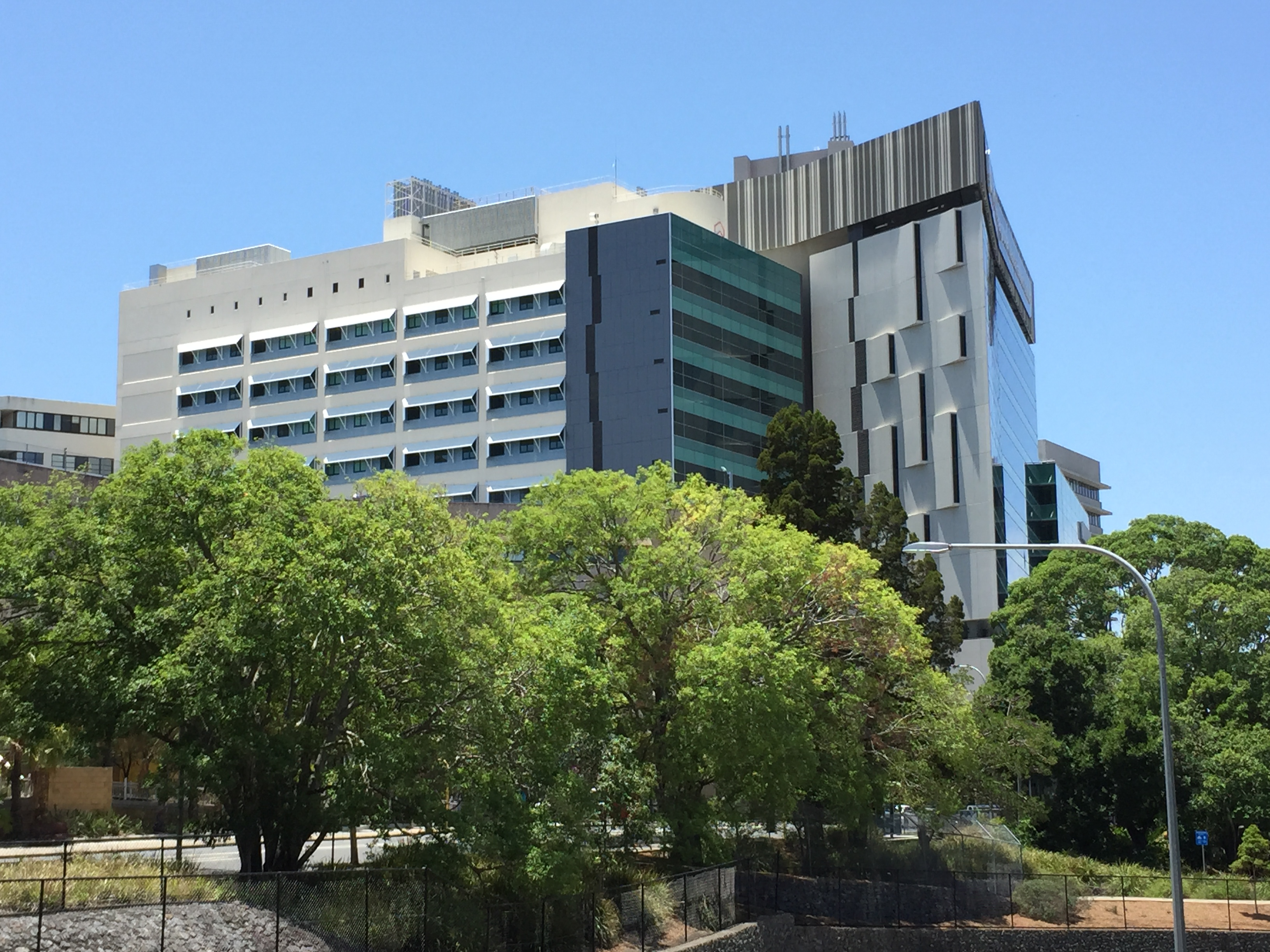 QIMR Berghofer Medical Research Institute at Herston Road, Herston, Queensland.